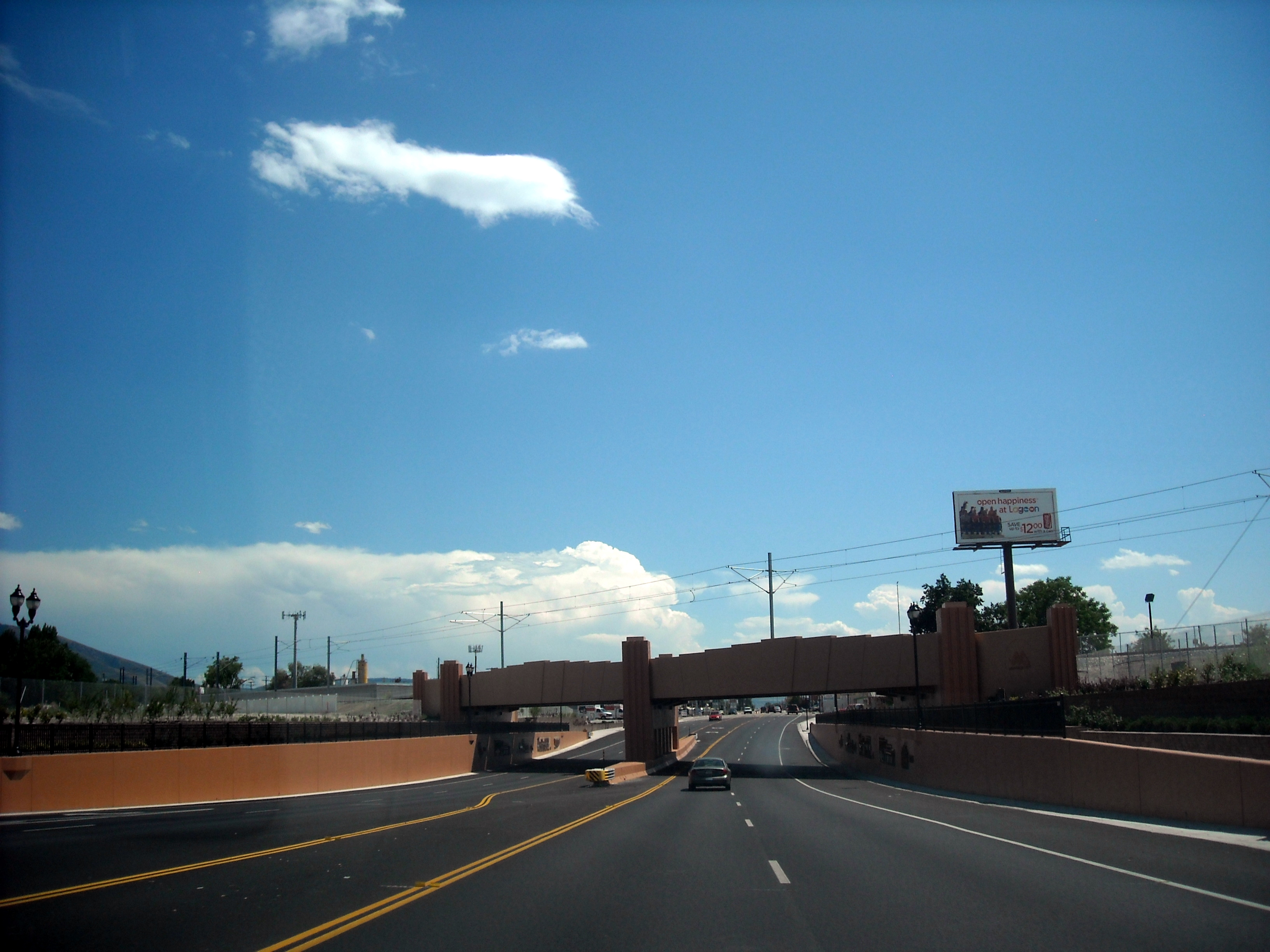 State St (US-89) southbound just past 7800 South in Midvale